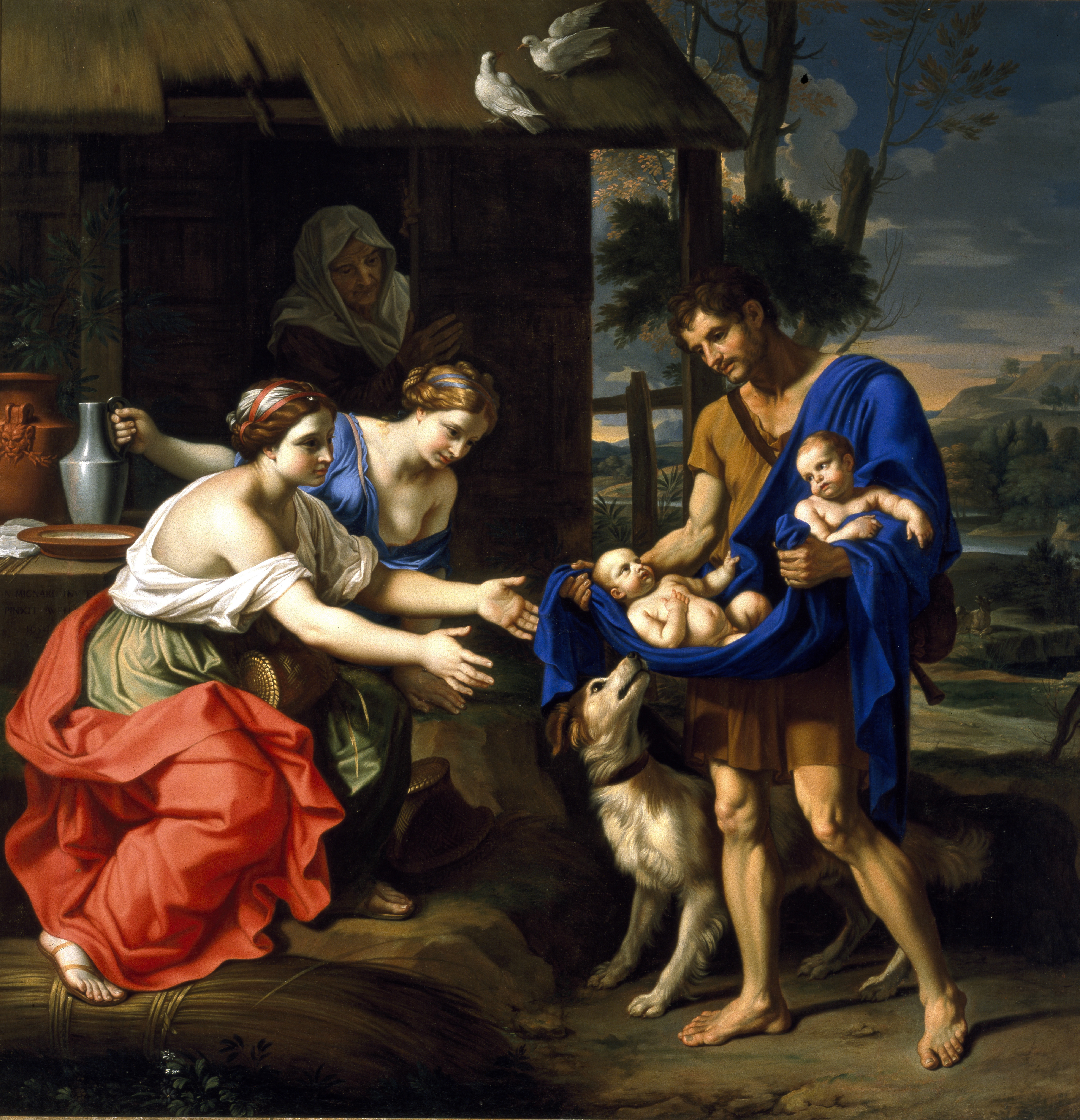 Painting: The Shepherd Faustulus Bringing Romulus and Remus to his Wife, by Nicolas Mignard. Current location: Dallas Museum of Art